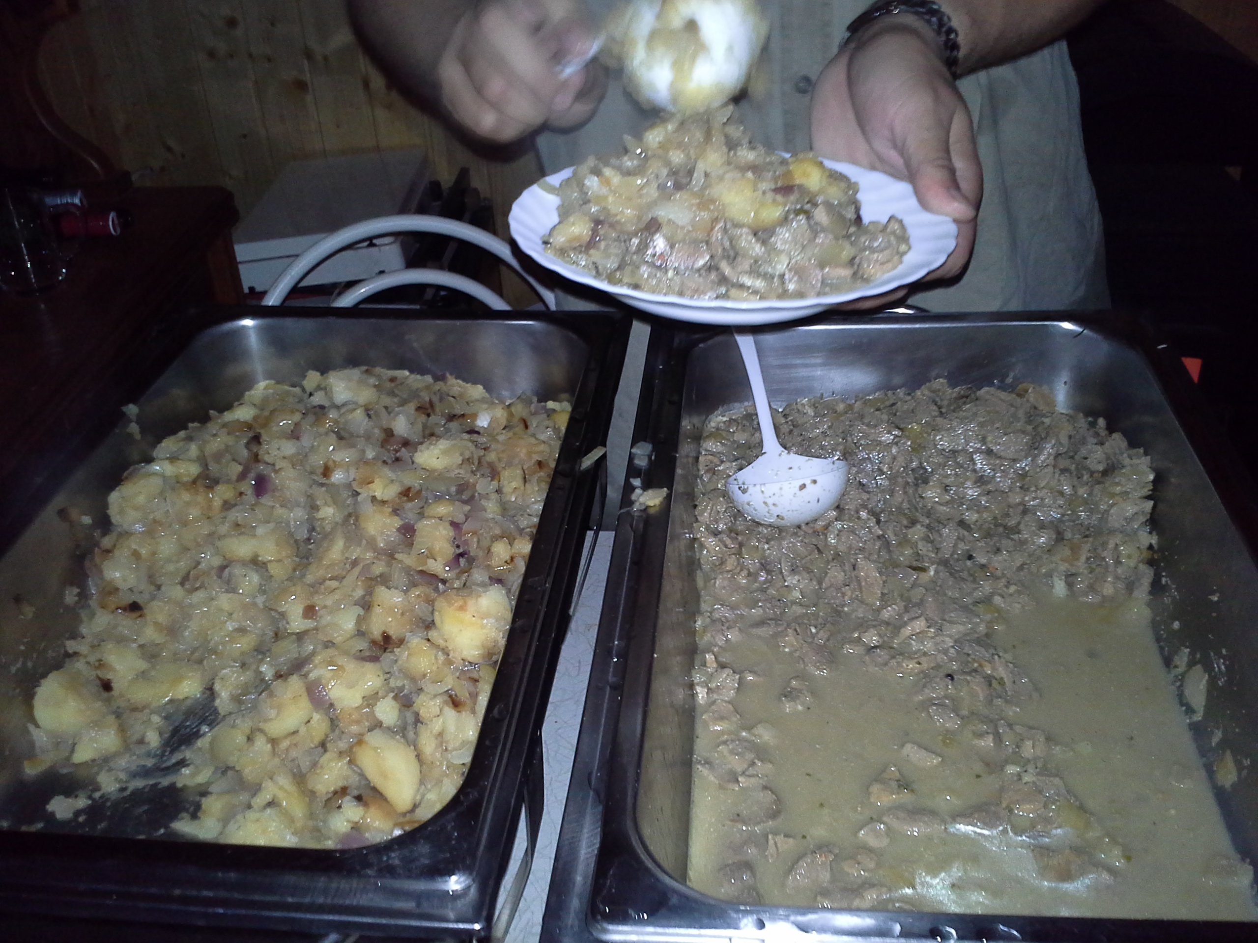 Meal with bull testicle (right)